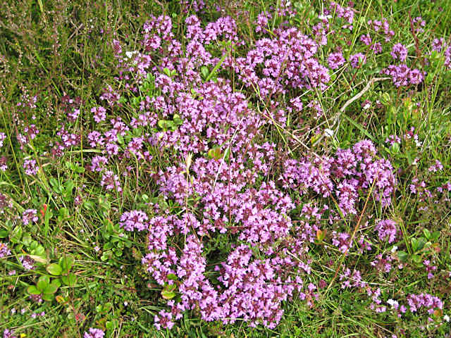 Common wild thyme A big clump of thyme amongst the heather.